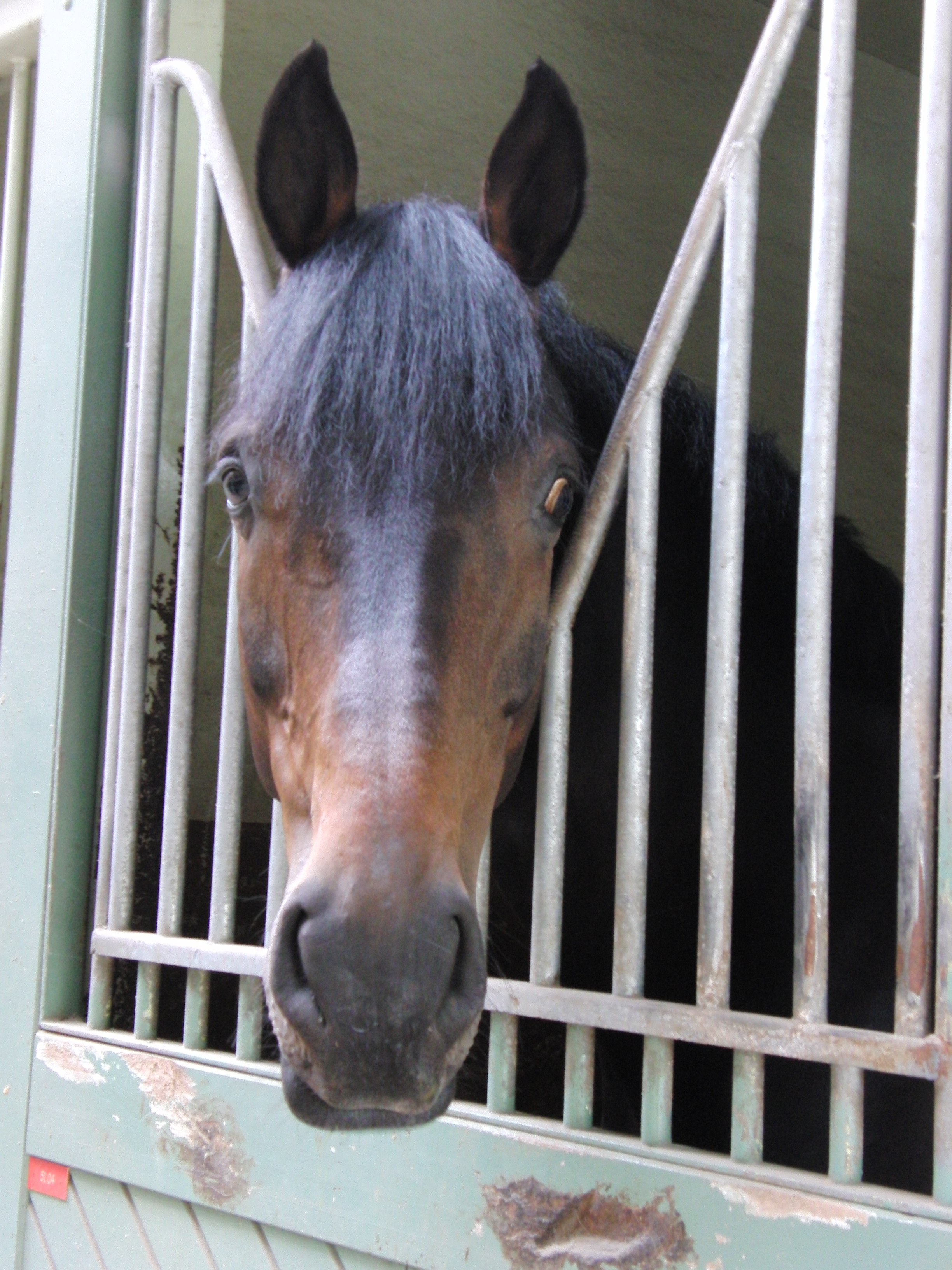 Sontero, hanoverian gelding born in 2006, in his box stall at the ENE, Saumur, France